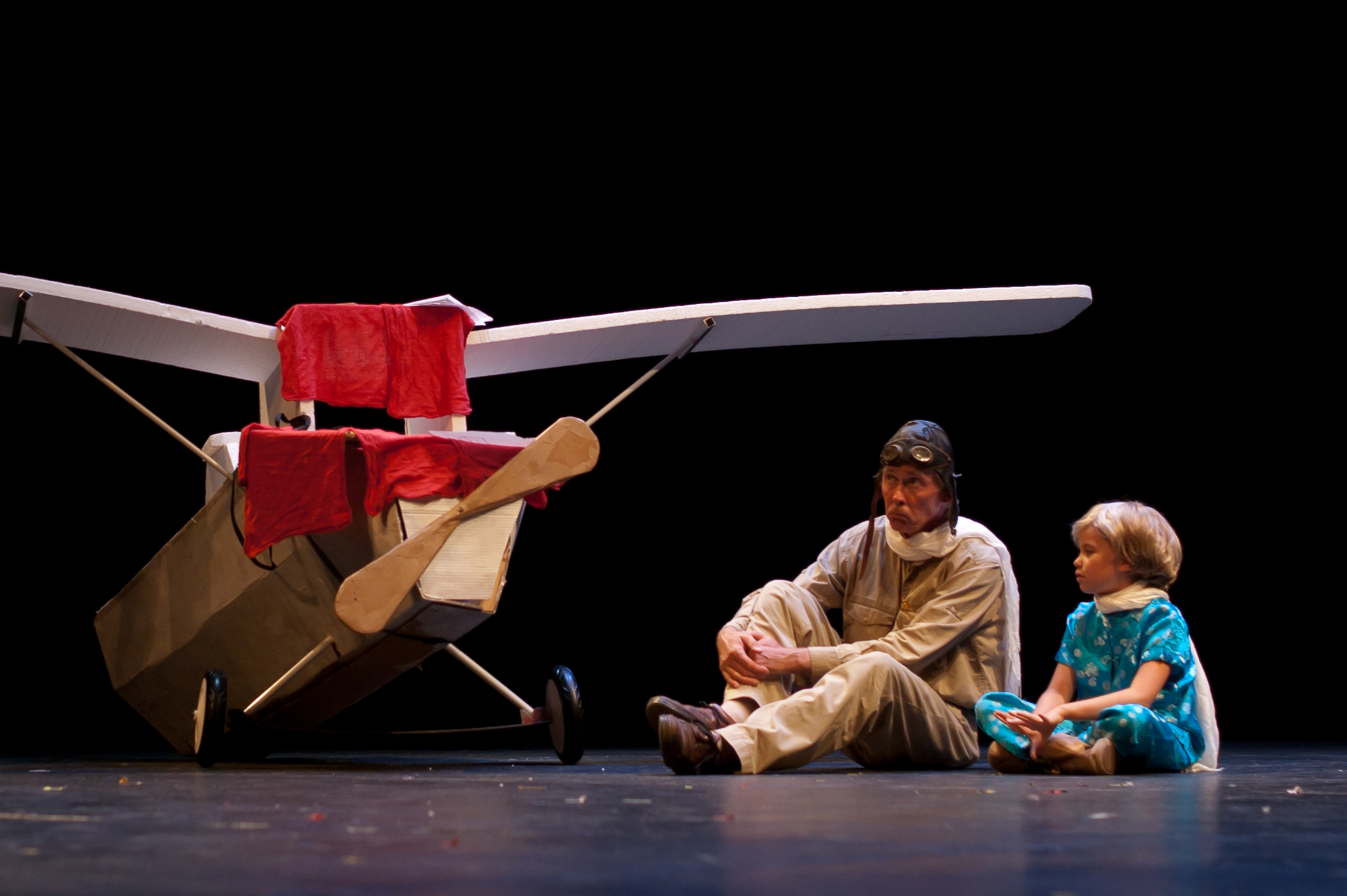 The Little Prince, presented by Harmony Theatre Company and School at Rarig Proscenium.